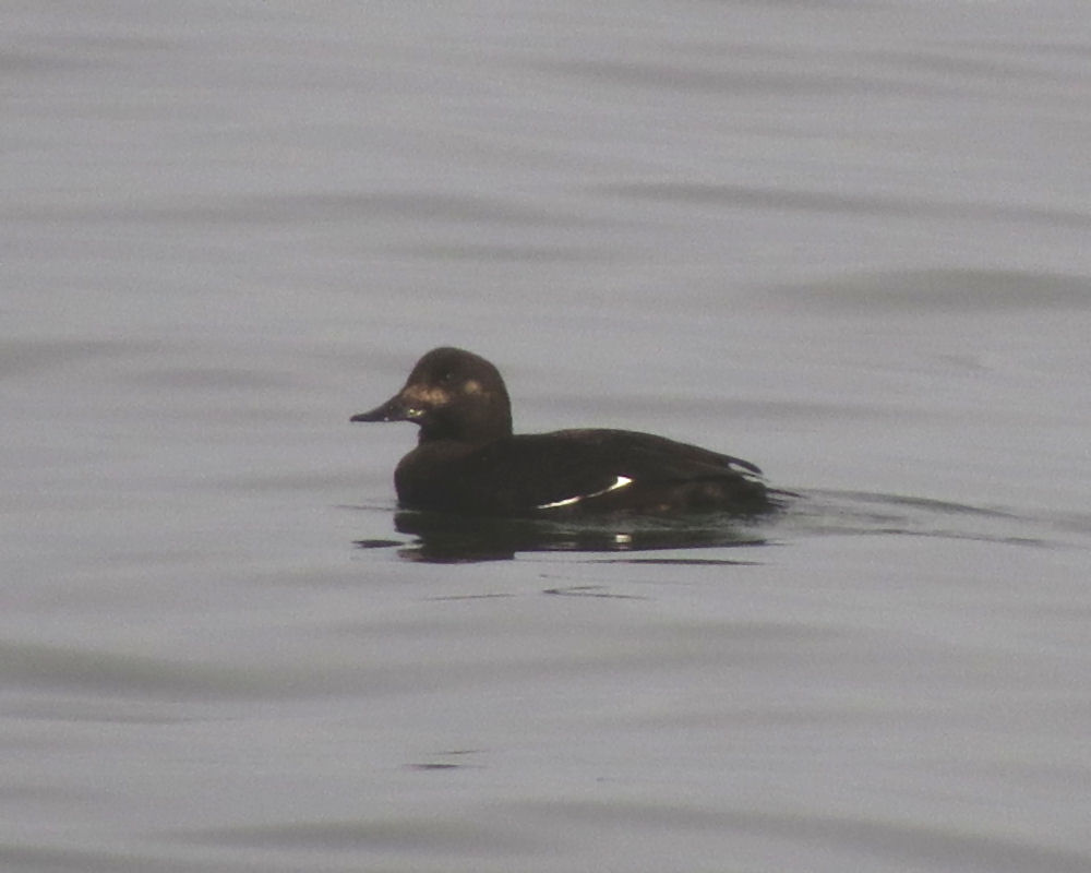 Velvet Scoter (Melanitta fusca), female, Musselburgh, Scotland